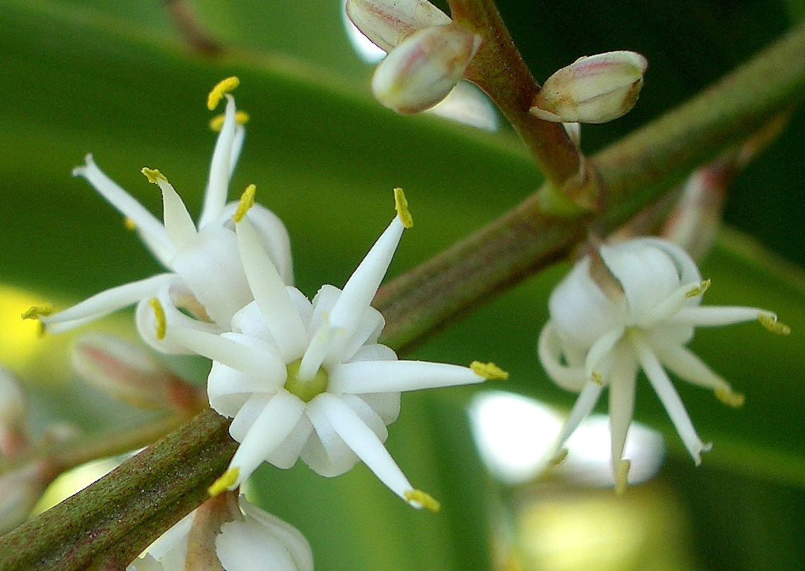 Magnified view of flowers of Cordyline australis, cabbage tree. Each flower has a style tipped by a shortly trifid stigma. There are also anthers with pollen, and nectar around the base of the ovary.